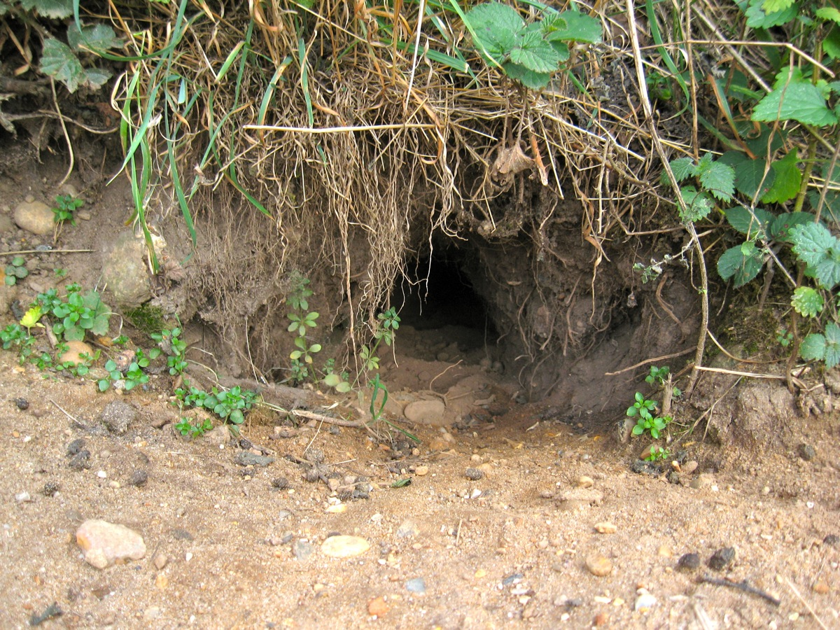 Entrance to a rabbit warren.